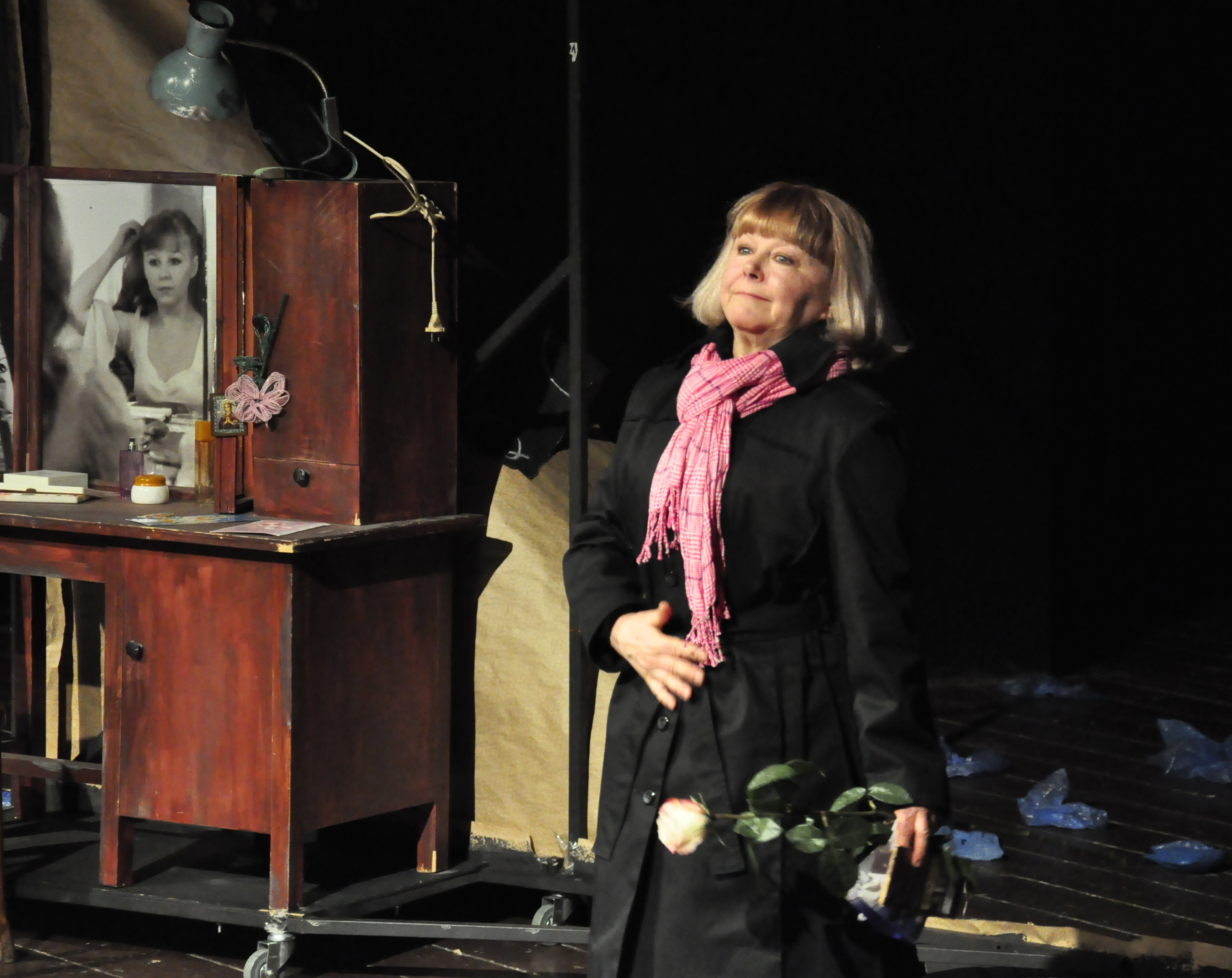 Oscar et la Dame rose, the end of perfomanse in Uraltuz, Yekaterinburg